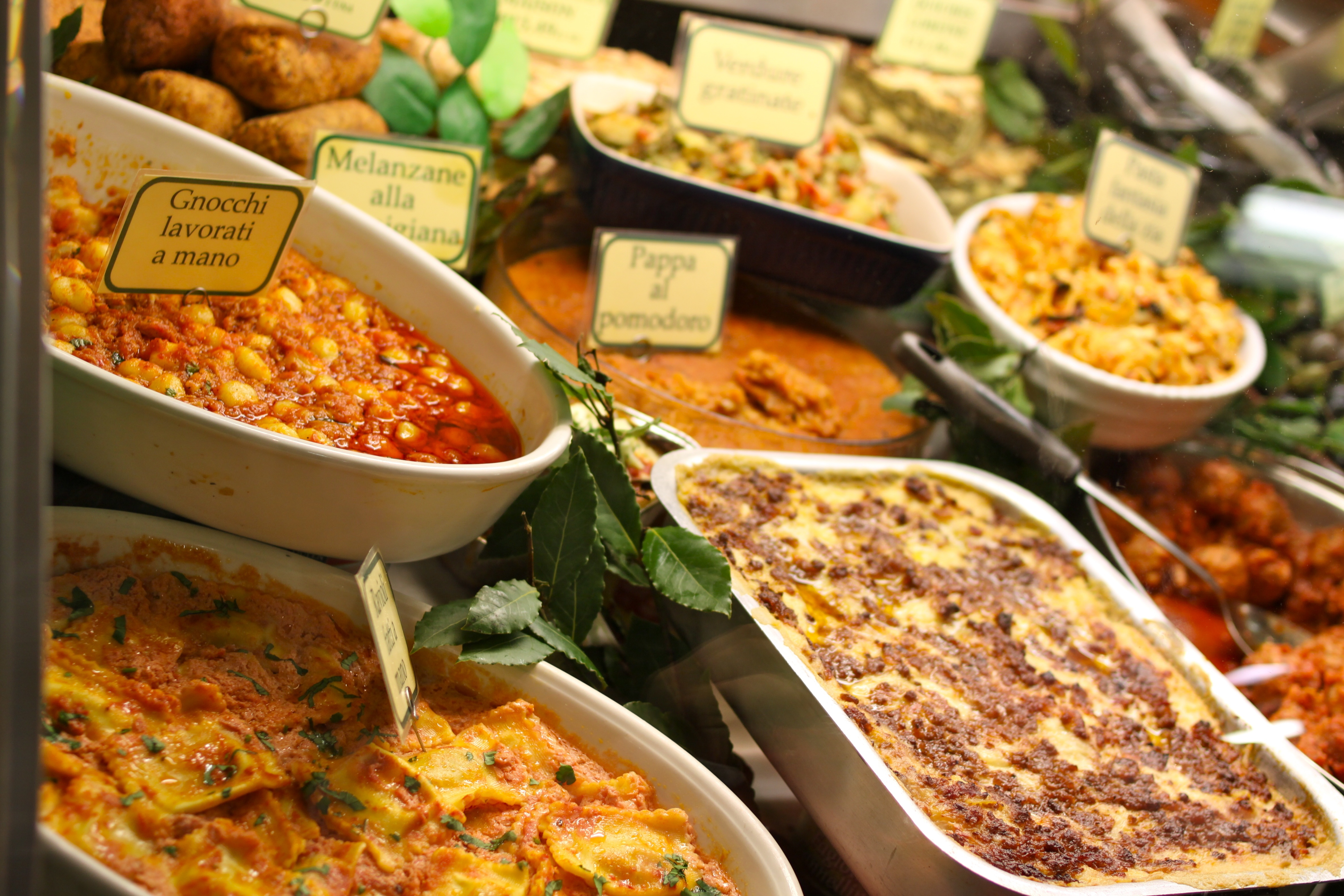 in Florence